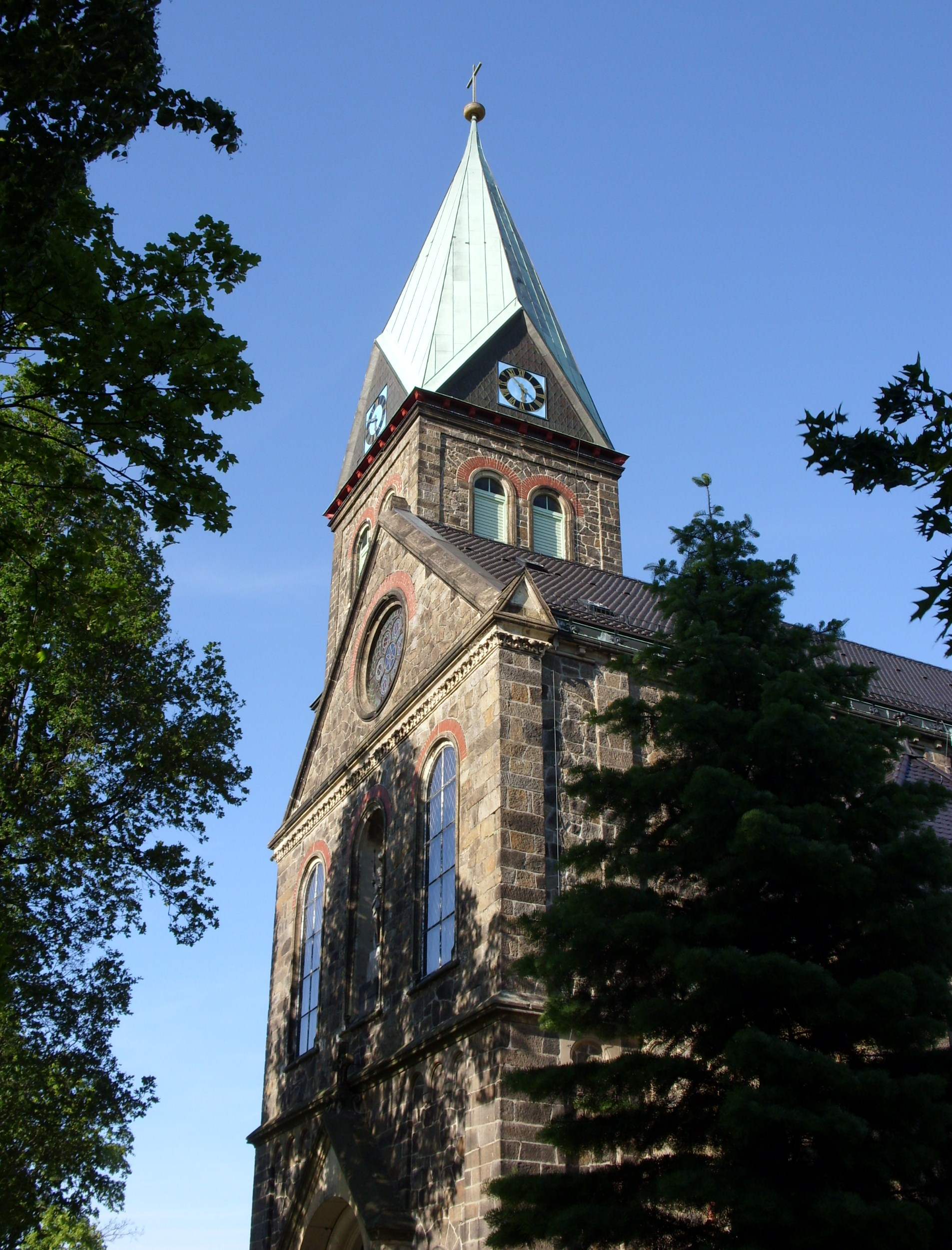 Church in Radibor (sorbian Radwor, Bautzen district).